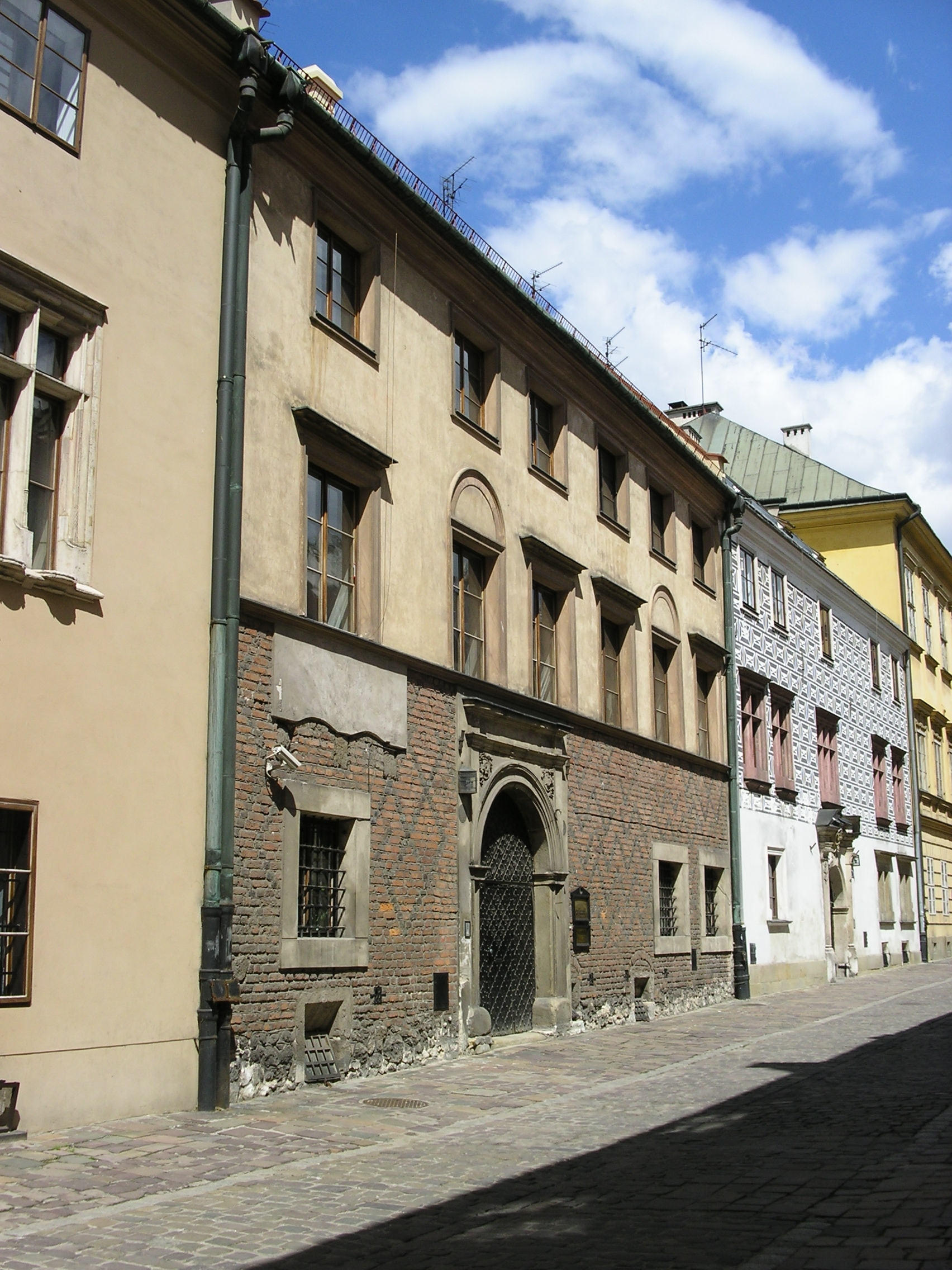 Crocot 2 Theater in Cracow, Poland